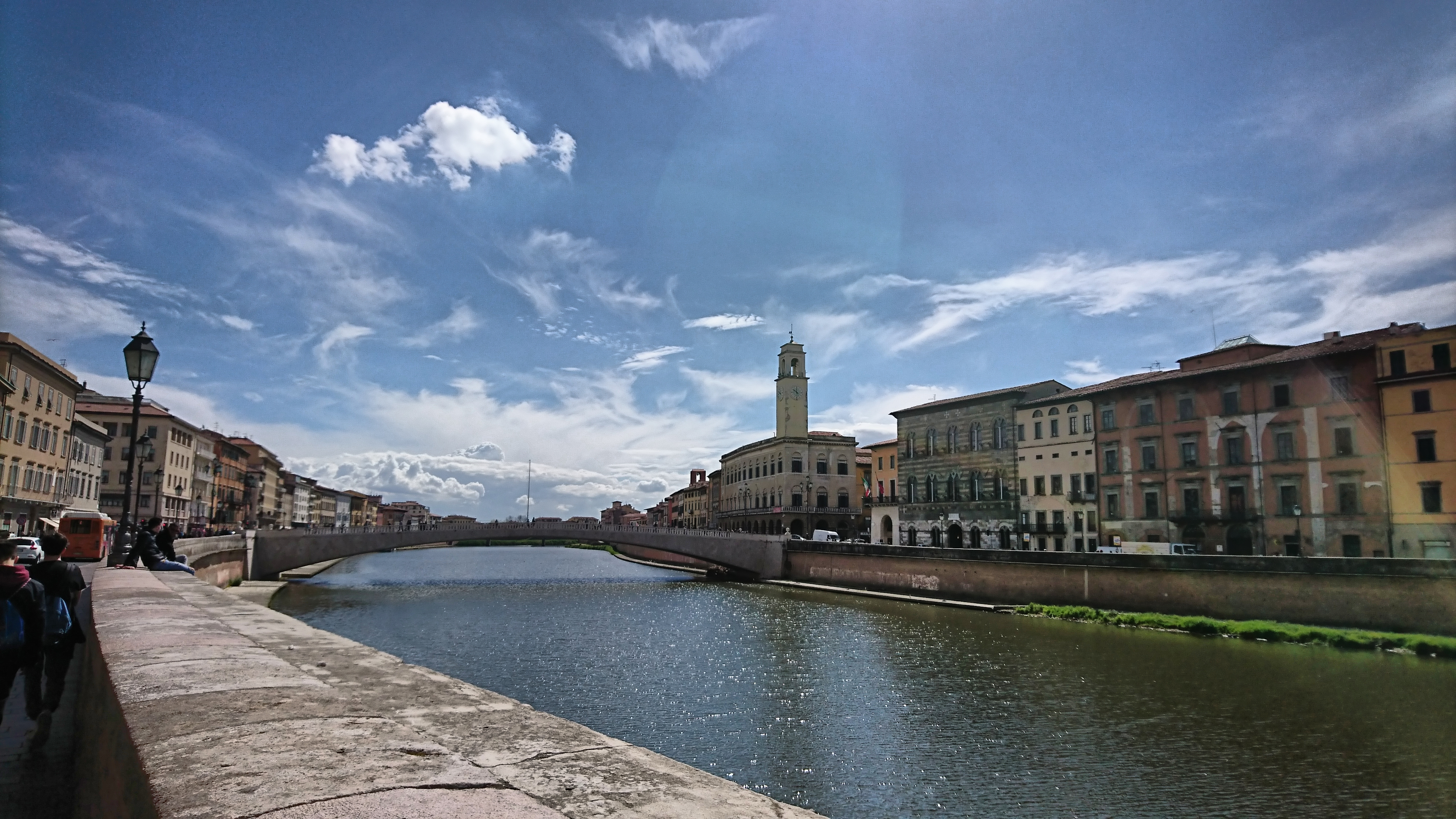 A part of the Lungarno in the city centre of Pisa.